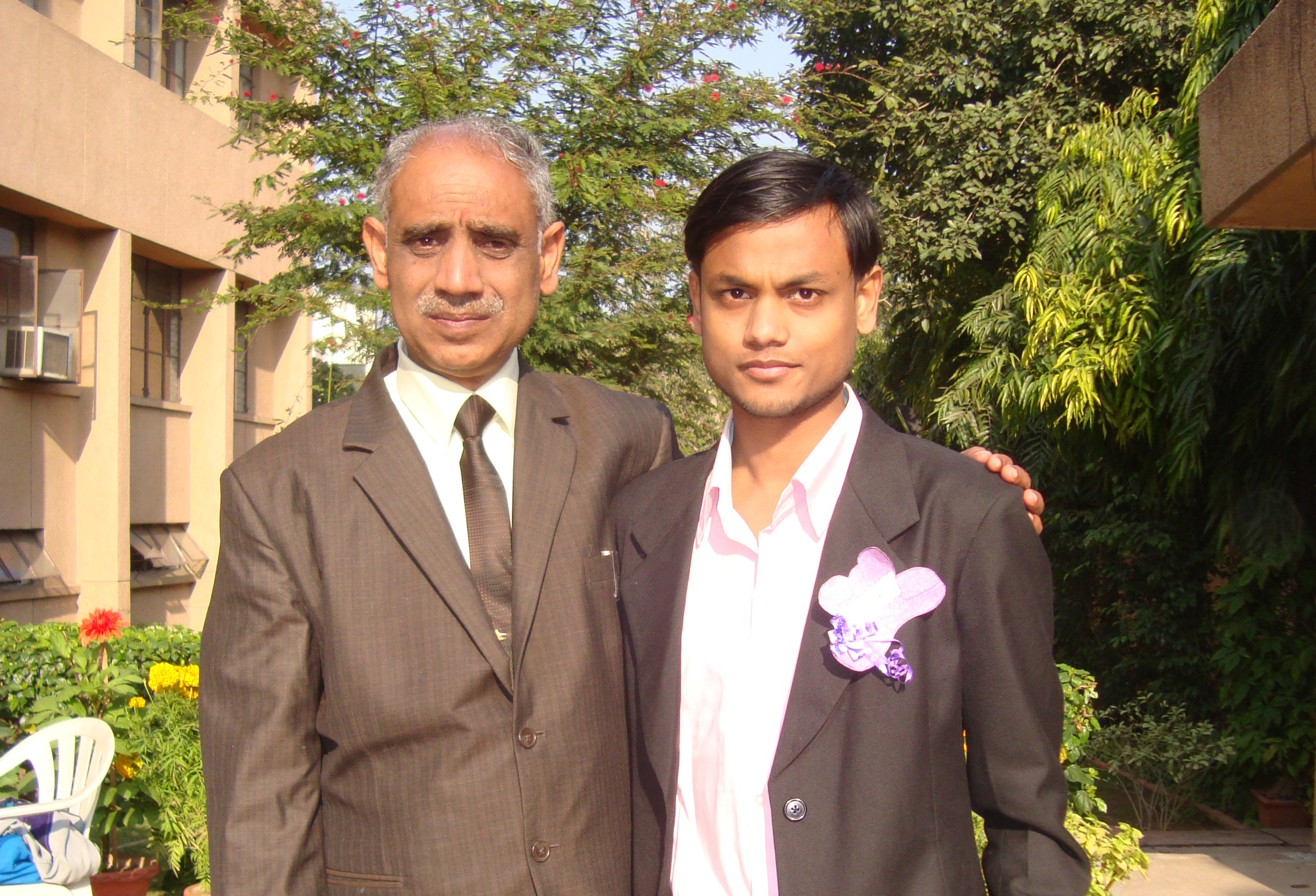 Shri Anil Kumar Tripath with Mr. Isrg Rajan CEO of Eduate